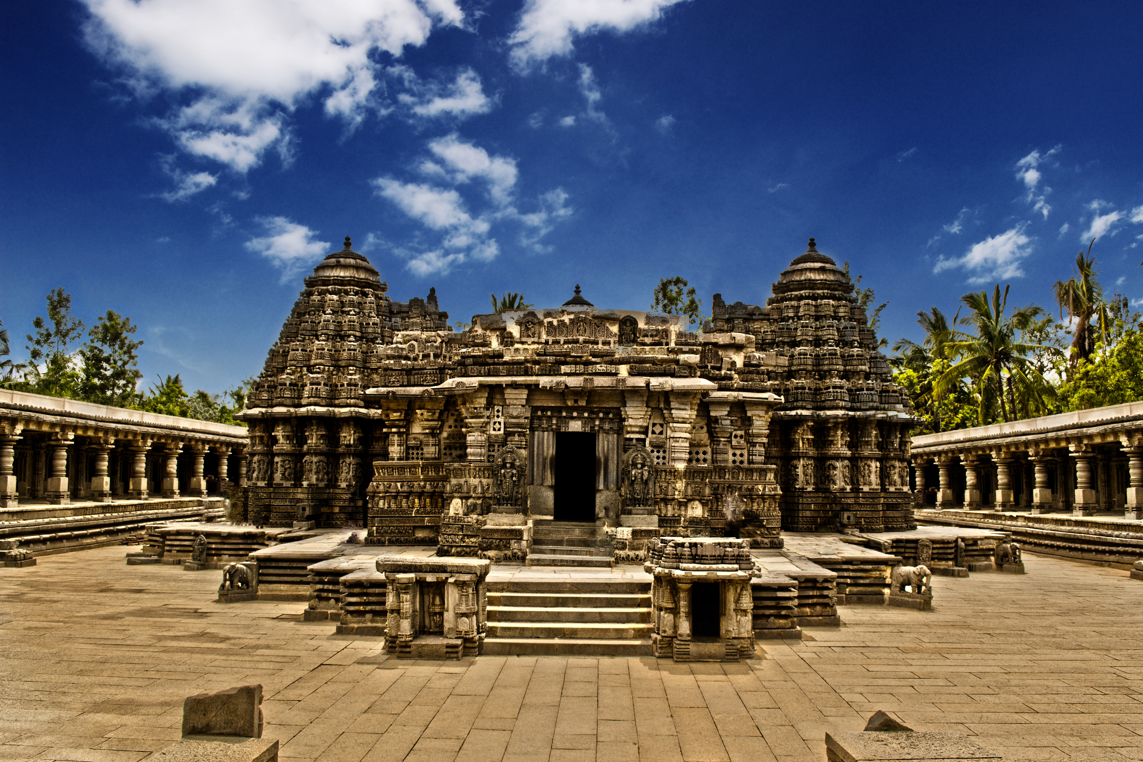 Chennakesava Temple at Somanathapura